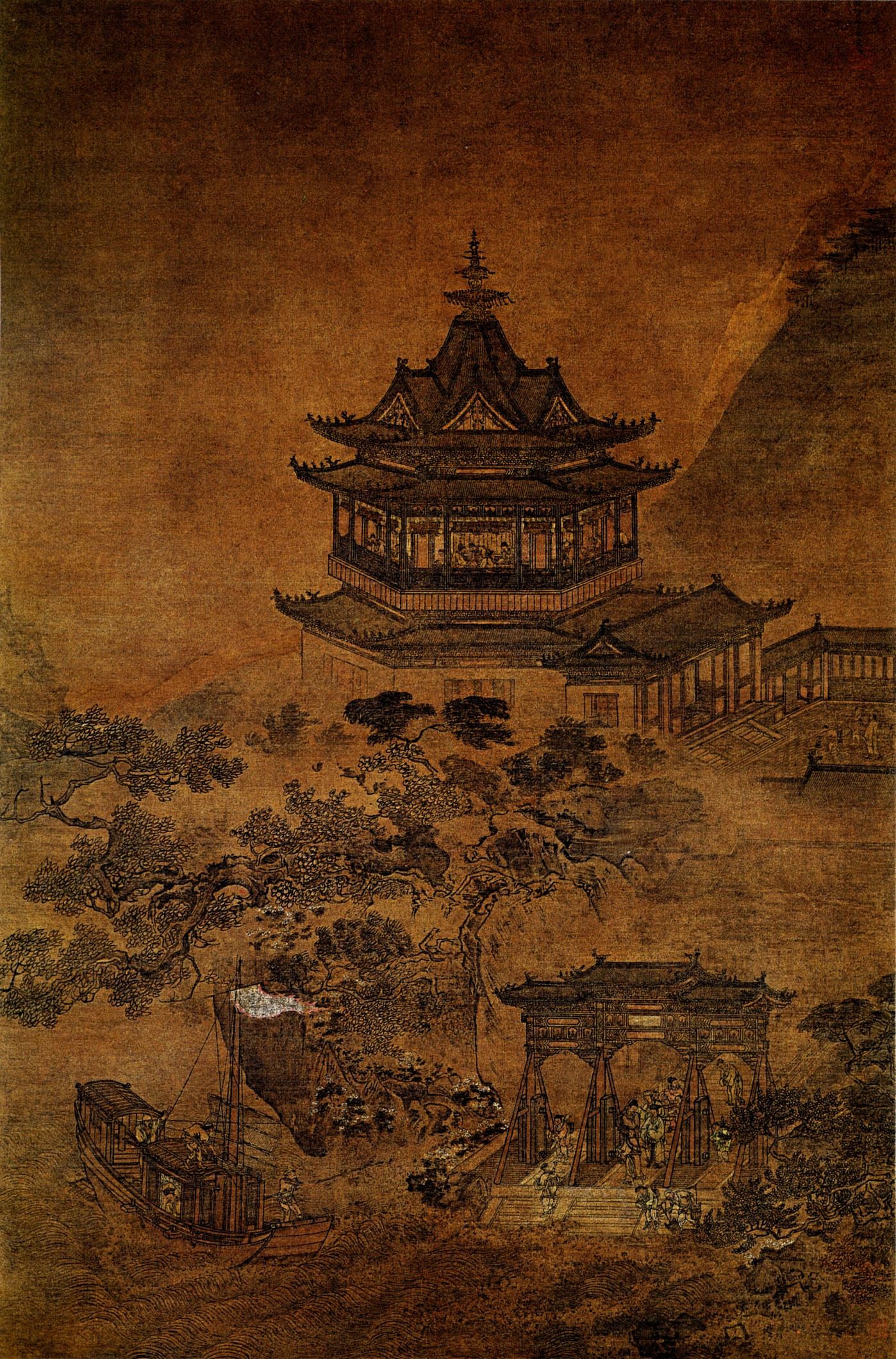 Yueyang Tower, hanging scroll, Color on silk, 162.5 x 99 cm. Located at the Shanghai Museum.